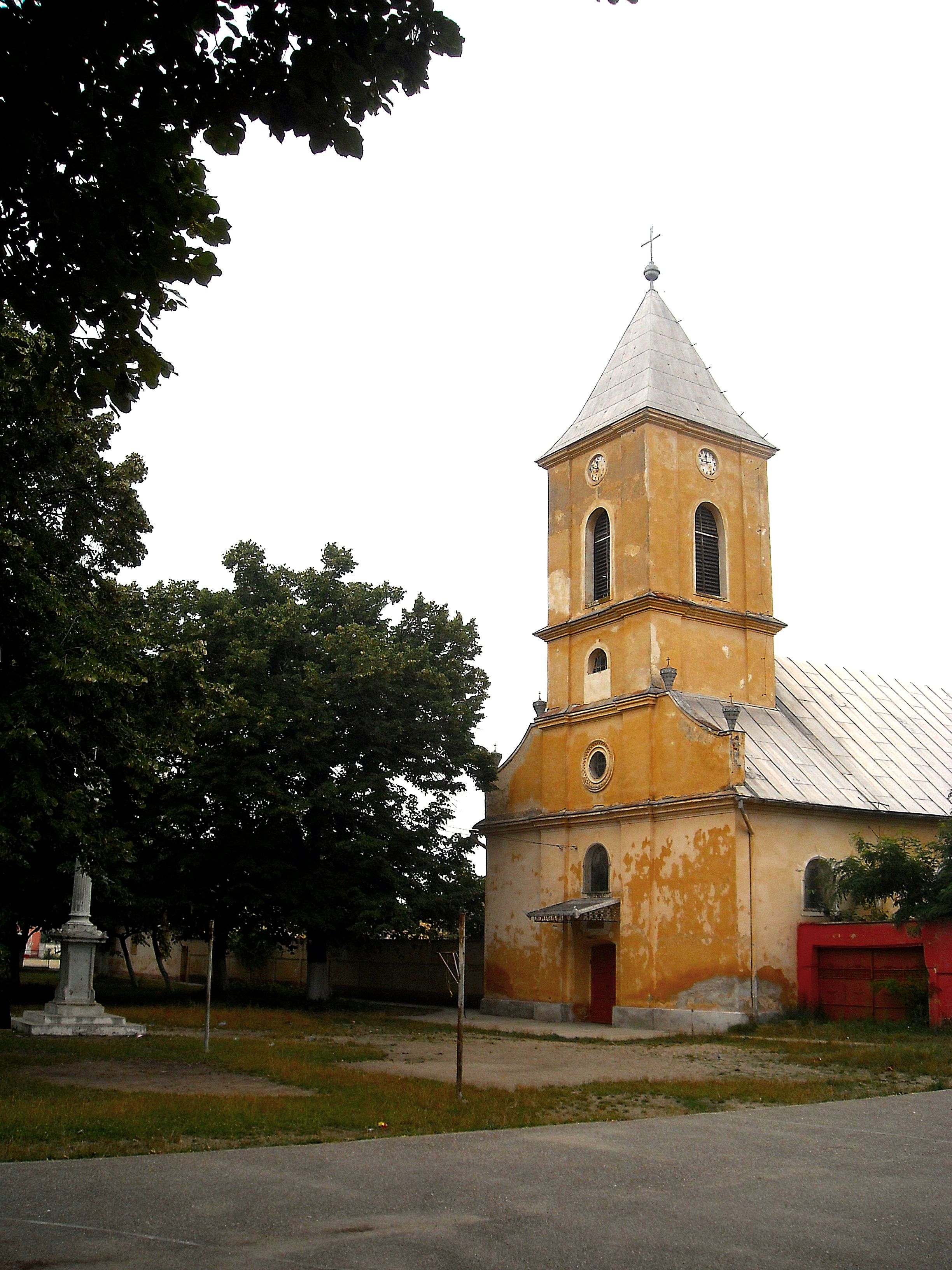 Roman Catholic church in Horia/Neupanat, Arad County, Romania